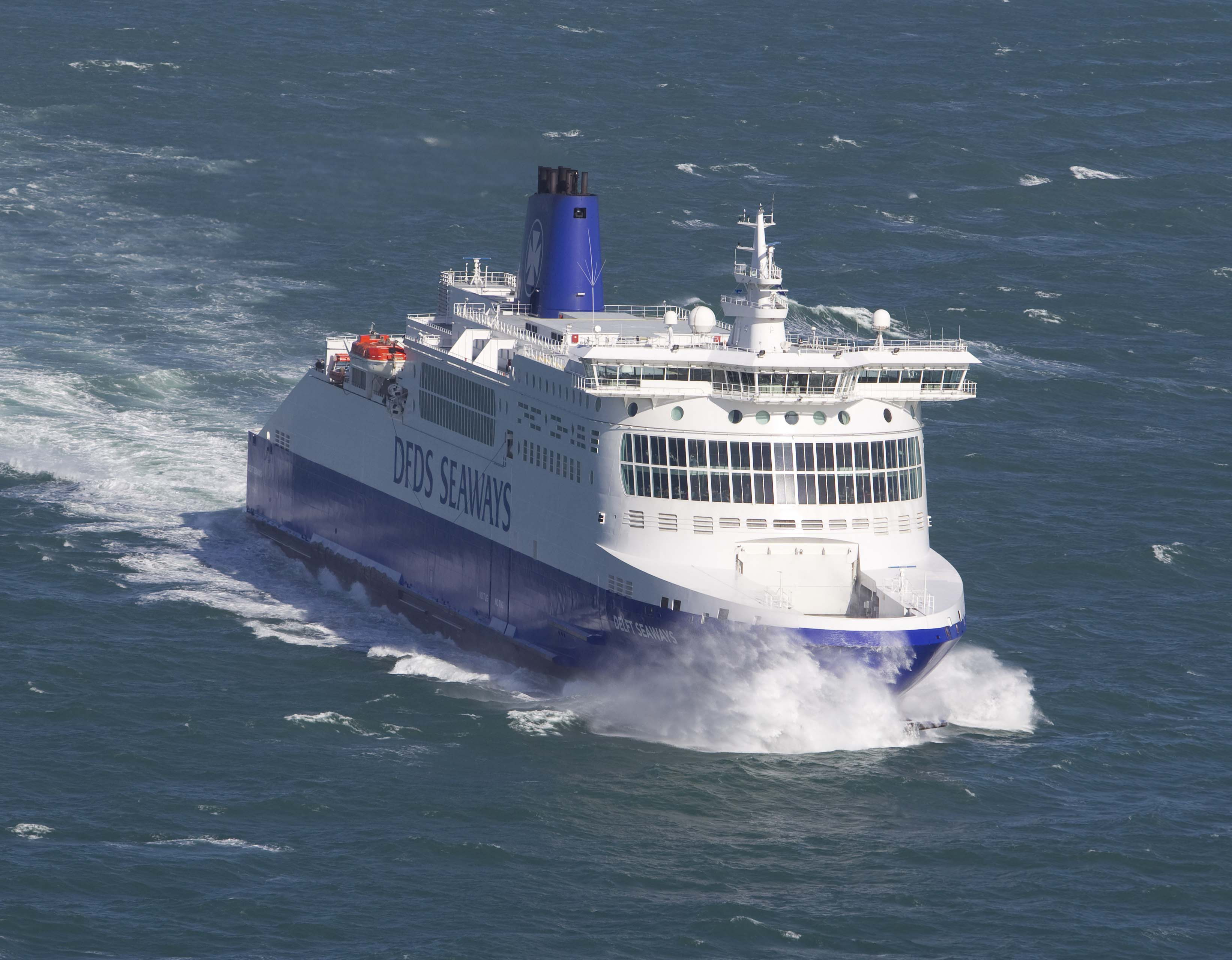 Delft Seaways ferry on the English Channel